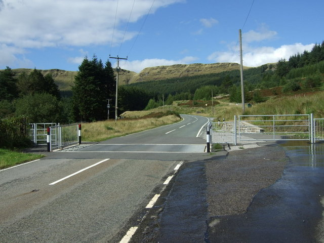 Cattle grid on A4061 above Nant-y-Moel Fairly new cattle grid on road looking in the Treorchy direction.